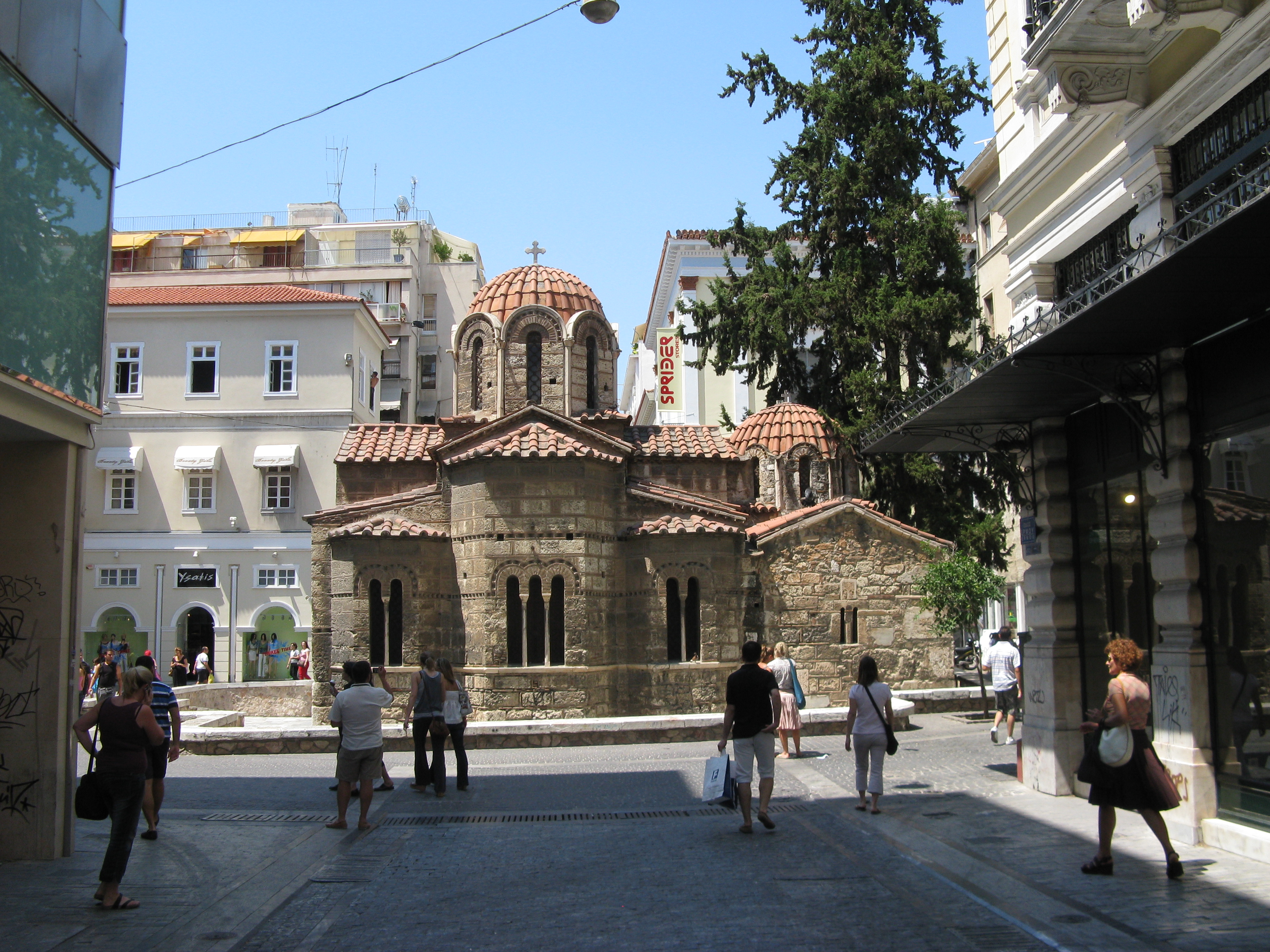 The old church "Panaghia Kapnikarea" in Ermou & Kalamiotou street, Athens, Greece